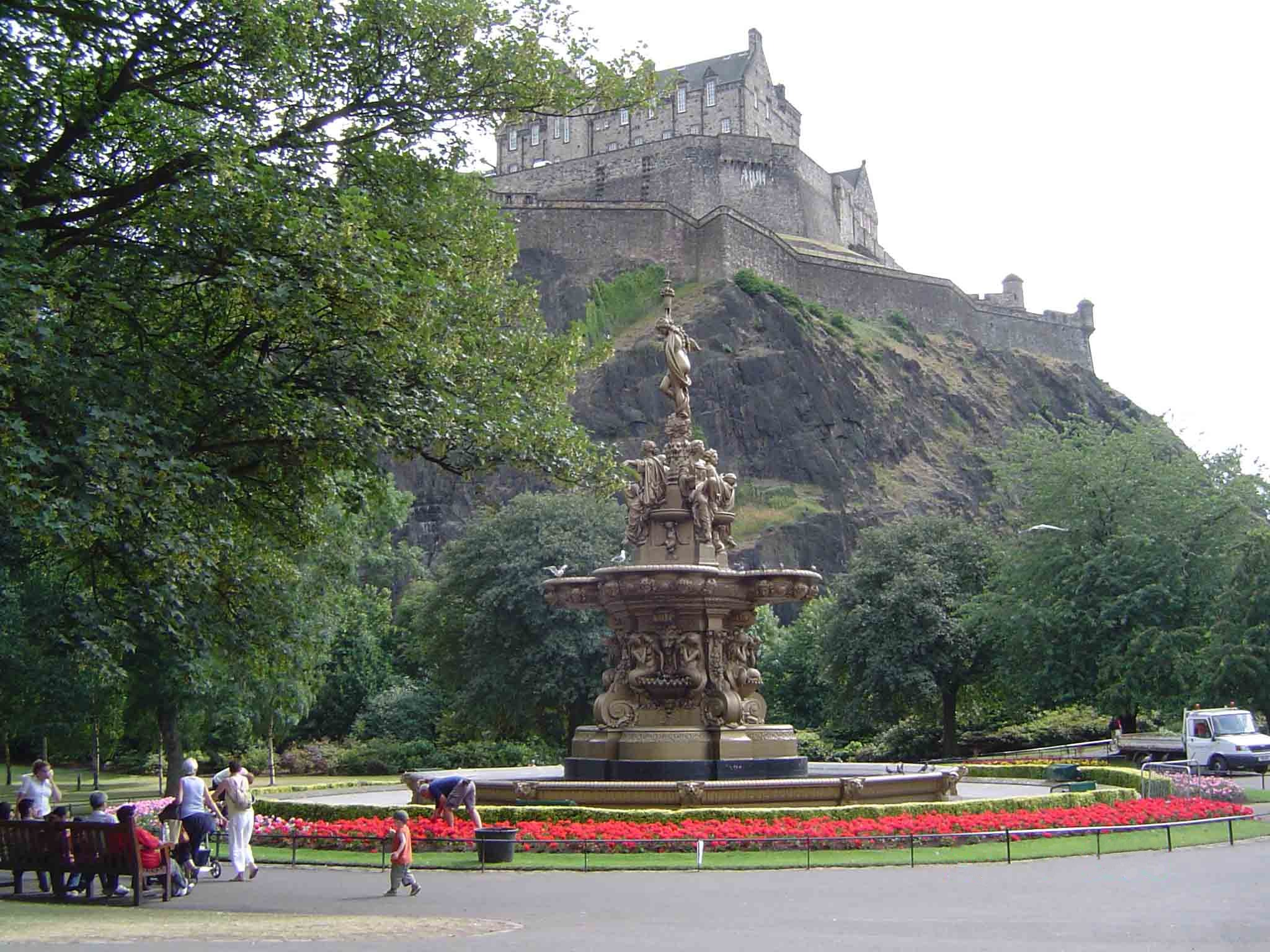 Edinburgh Castle, from Princes Street Gardens. Edinburgh, Scotland.